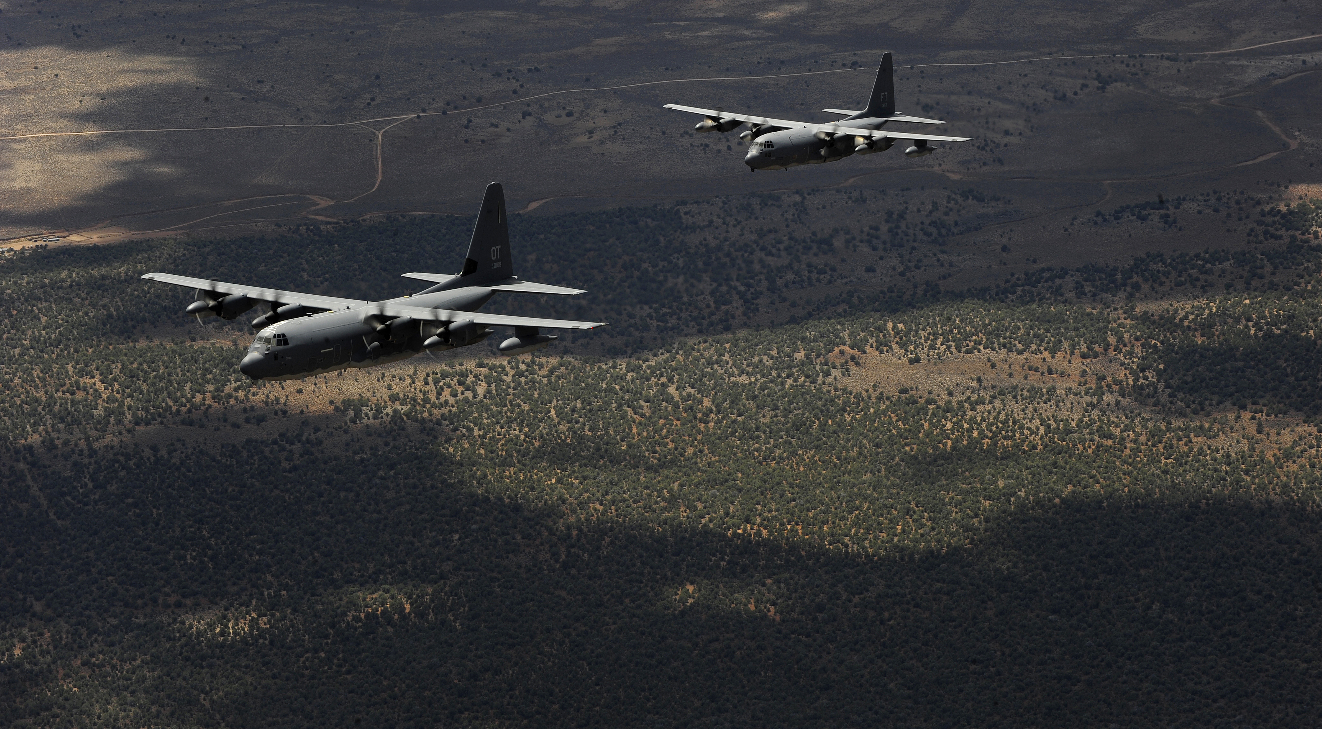 Airmen with the 79th Rescue Squadron from Davis-Monthan Air Force Base, Ariz., conduct a mission over the Grand Canyon with the HC-130P and the new HC-130J on June 27, 2012. Davis-Monthan began the transition to the HC-130J in order to enhance their rescue mission capabilities. Unit: 1st Combat Camera Squadron DVIDS Tags: Davis-Monthan; HC-130P; HC-130J; Para Rescue; 79th Rescue Squadron; 306th Rescue Squadron